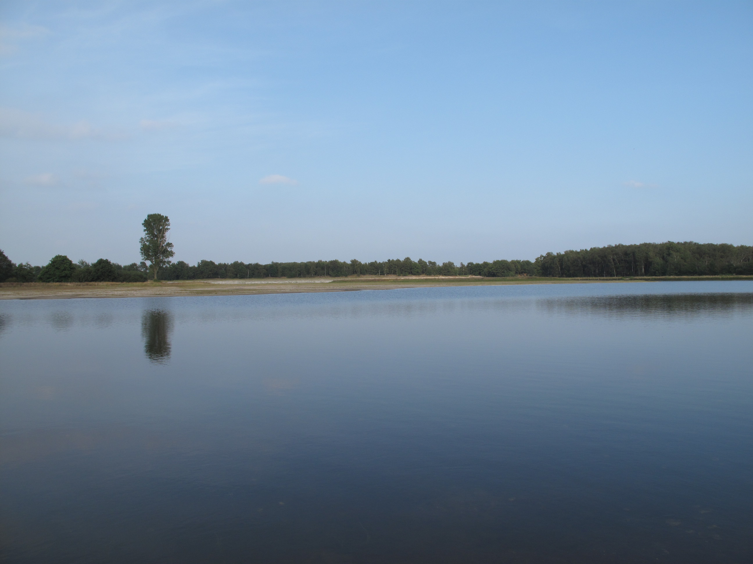 between Wellerlooi and Twisteden, lake in Maasduinen